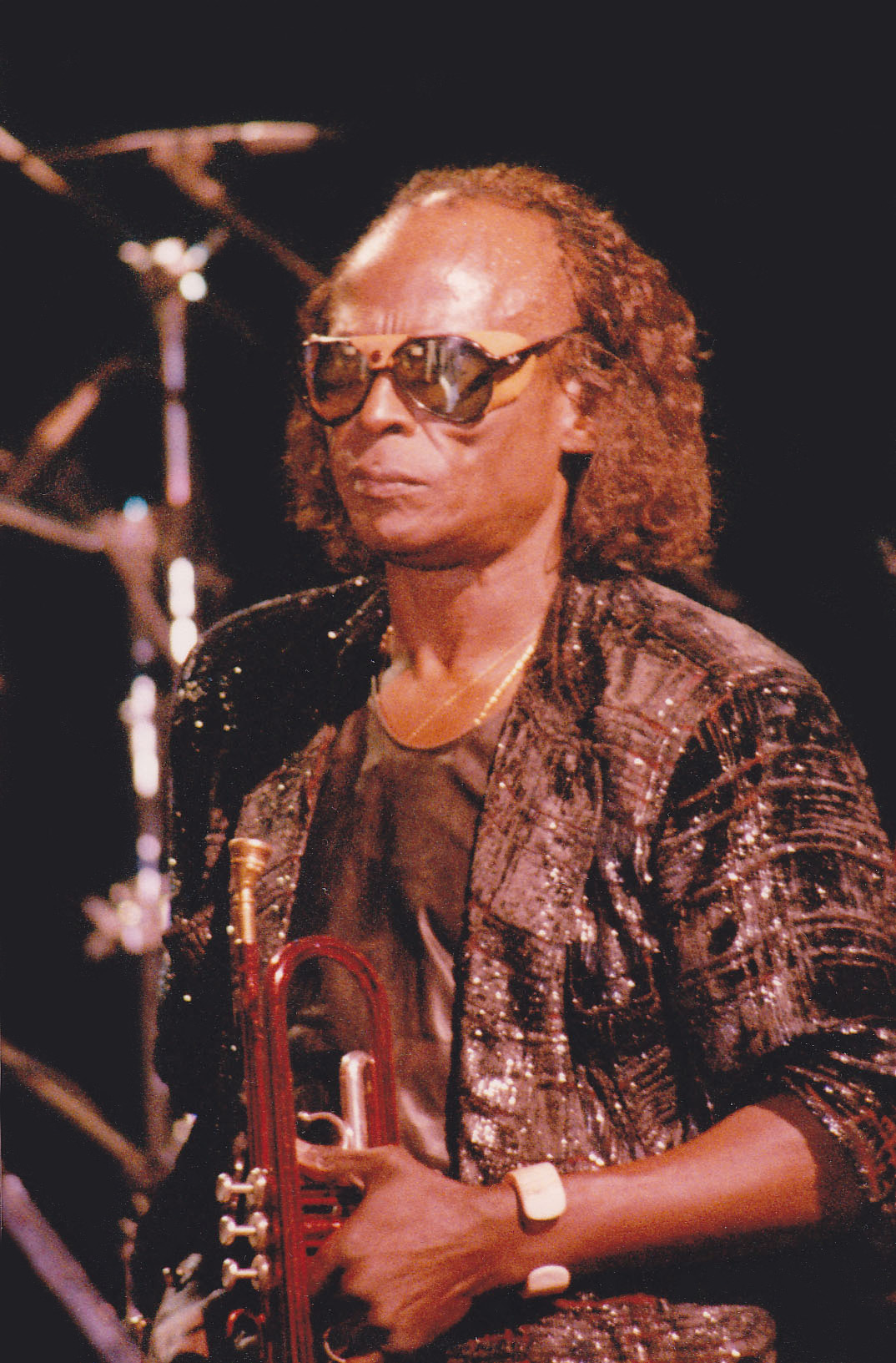 Miles Davis at Strasbourg (front)